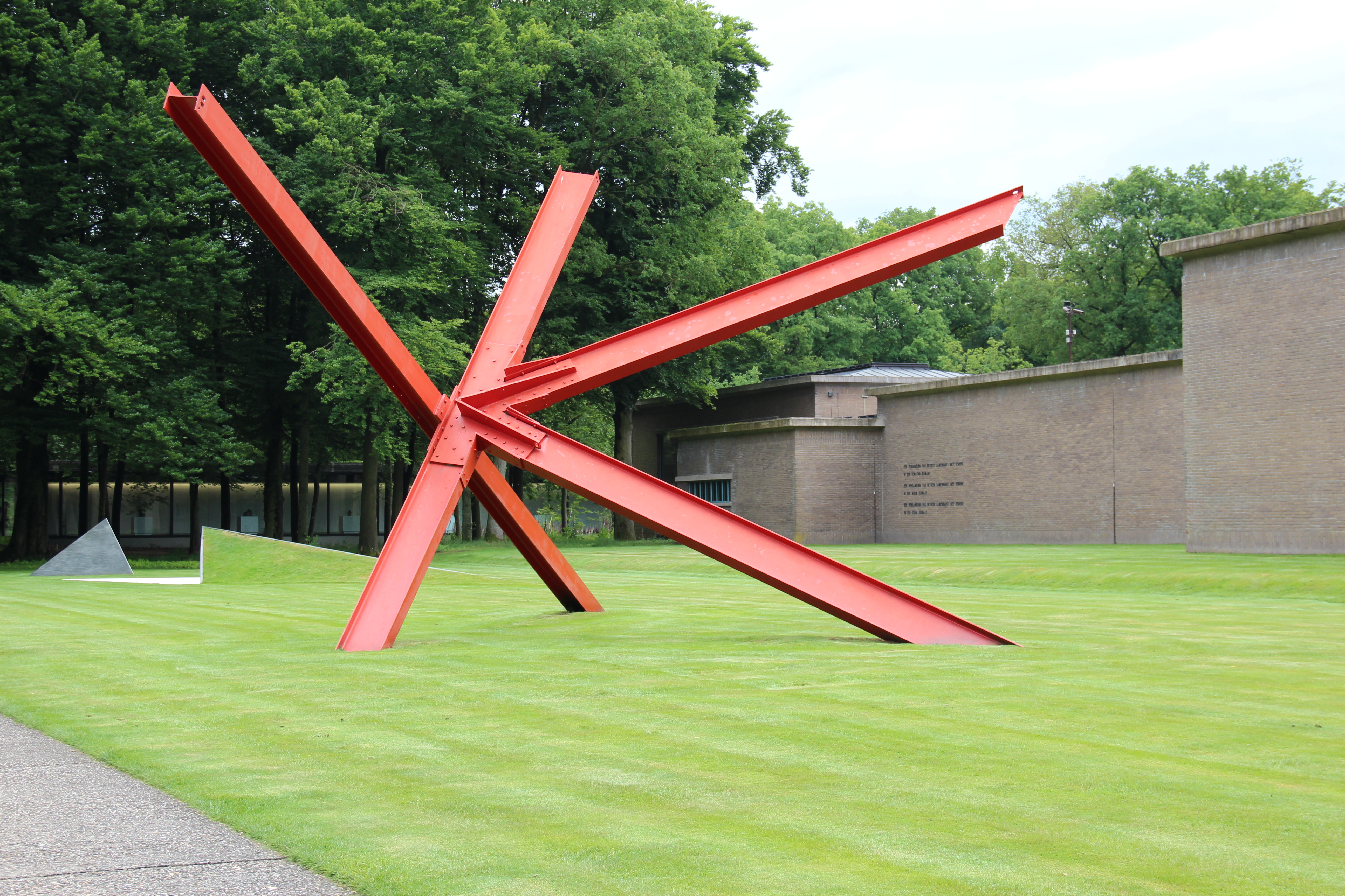 Artwork K-piece by Mark di Suvero at Kröller-Müller Museum the in the Hoge Veluwe National Park